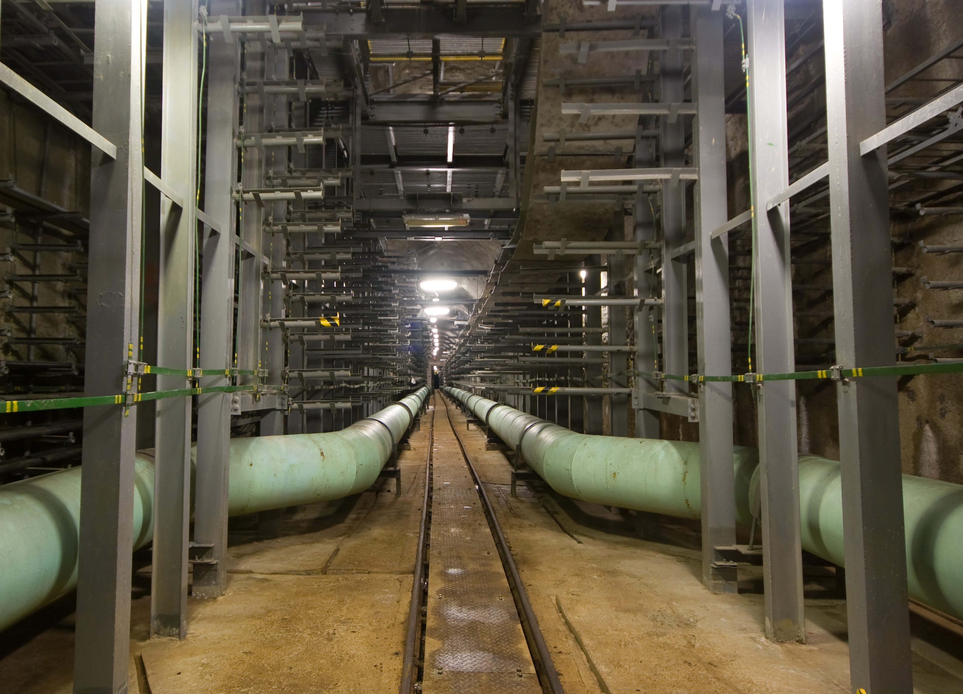 Utility tunnels Prague, Prague Tato série fotografií vznikla za laskavého svolení společnosti Kolektory Praha